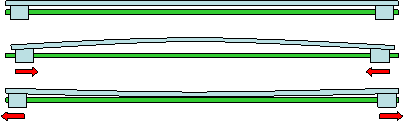 Push/pull mechanism of double action truss rod